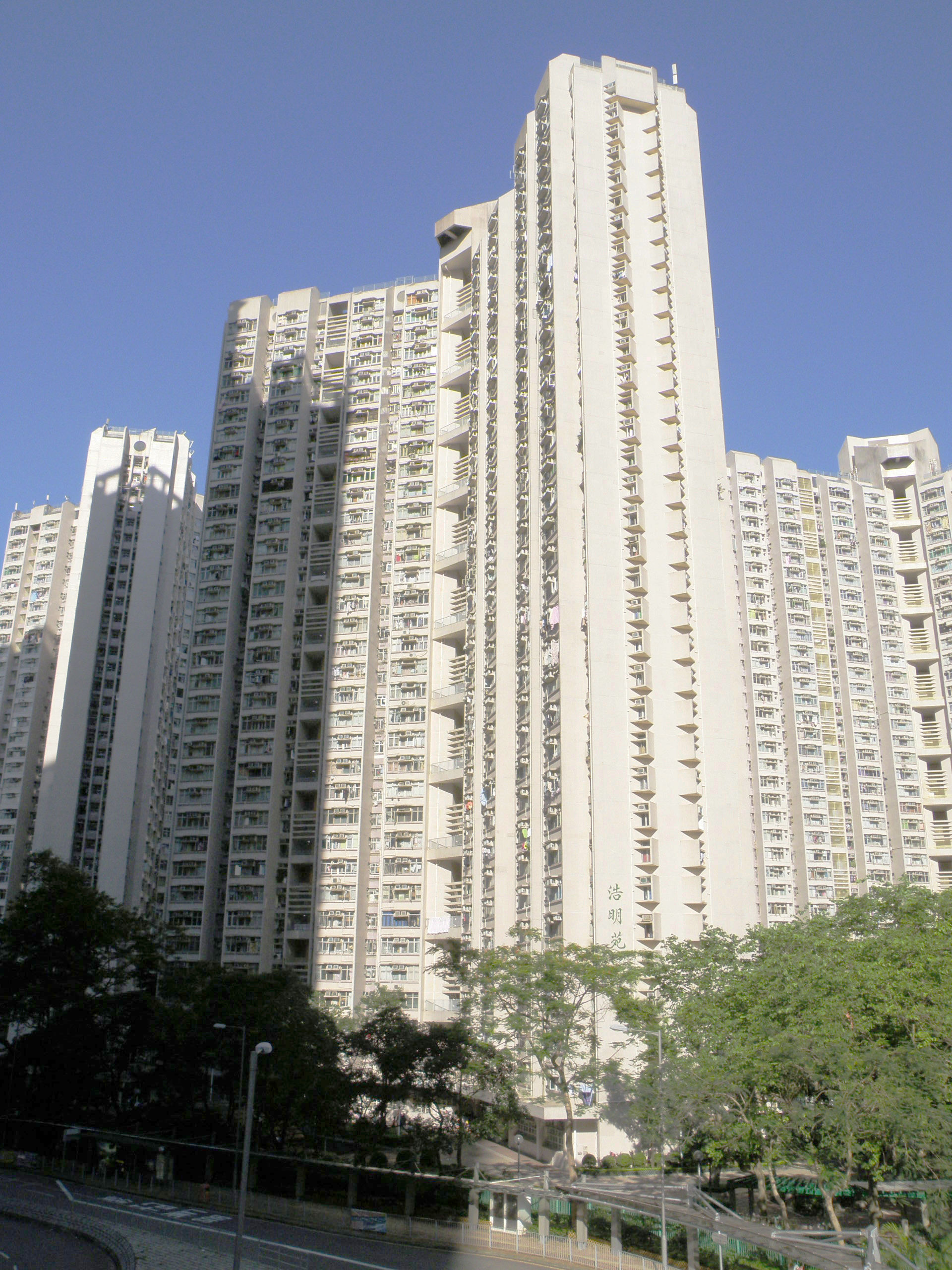 Ho Ming Court in Tseung Kwan O, Hong Kong.